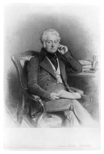 Lithograph of Richard Bentley, a 19th-century British publisher